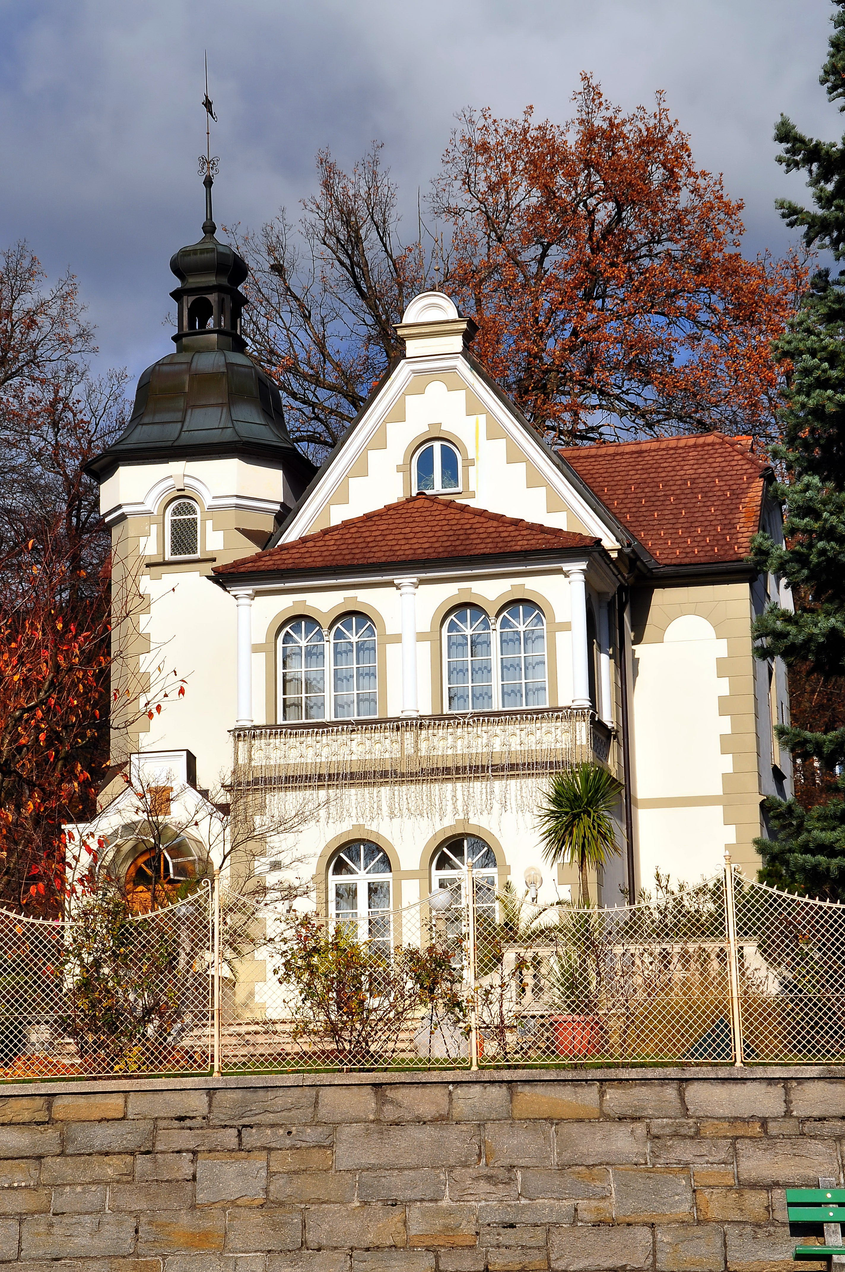 Manor house "Lieleg", architectural design by Carl Miller 1899, reconstructed by Franz Baumgartner in 1911, Hauptstraße #102, municipality Poertschach on the Lake Woerth, district Klagenfurt Land, Carinthia, Austria, EU